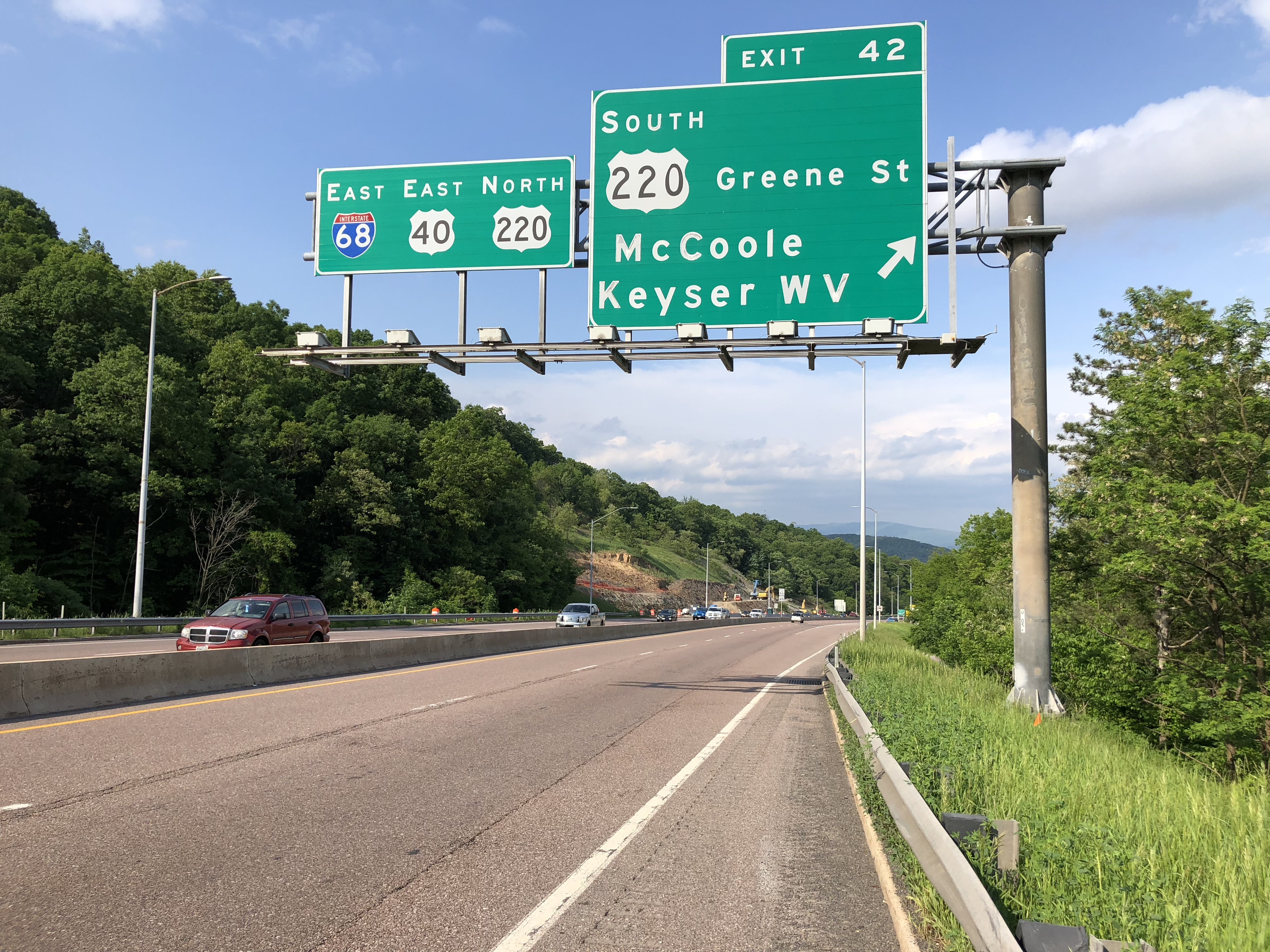 View east along Interstate 68 and U.S. Route 40 (National Freeway) at Exit 42 (SOUTH U.S. Route 220/Greene Street, McCoole, Keyser WV) in Bowling Green, Allegany County, Maryland